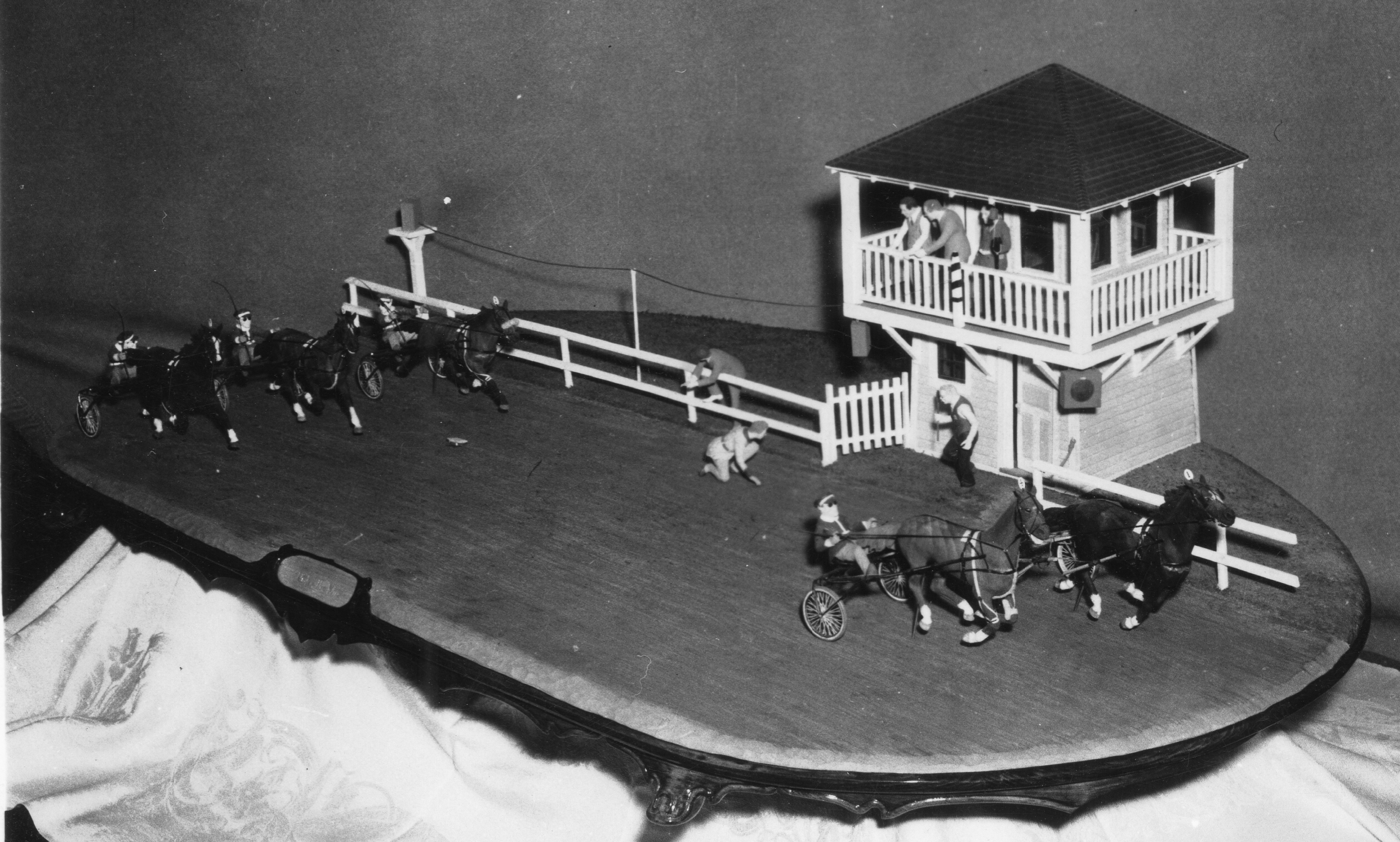 "Under The Wire" is a wood carving over 4ft in length, of the finish line from a horse trotter race. It was crafted by Granville Carter of Augusta, Maine. He was also known to family and friends as Dany Carter. He was a prolific whittler of wood figures and dioramas, and typically signed his work "Dany".